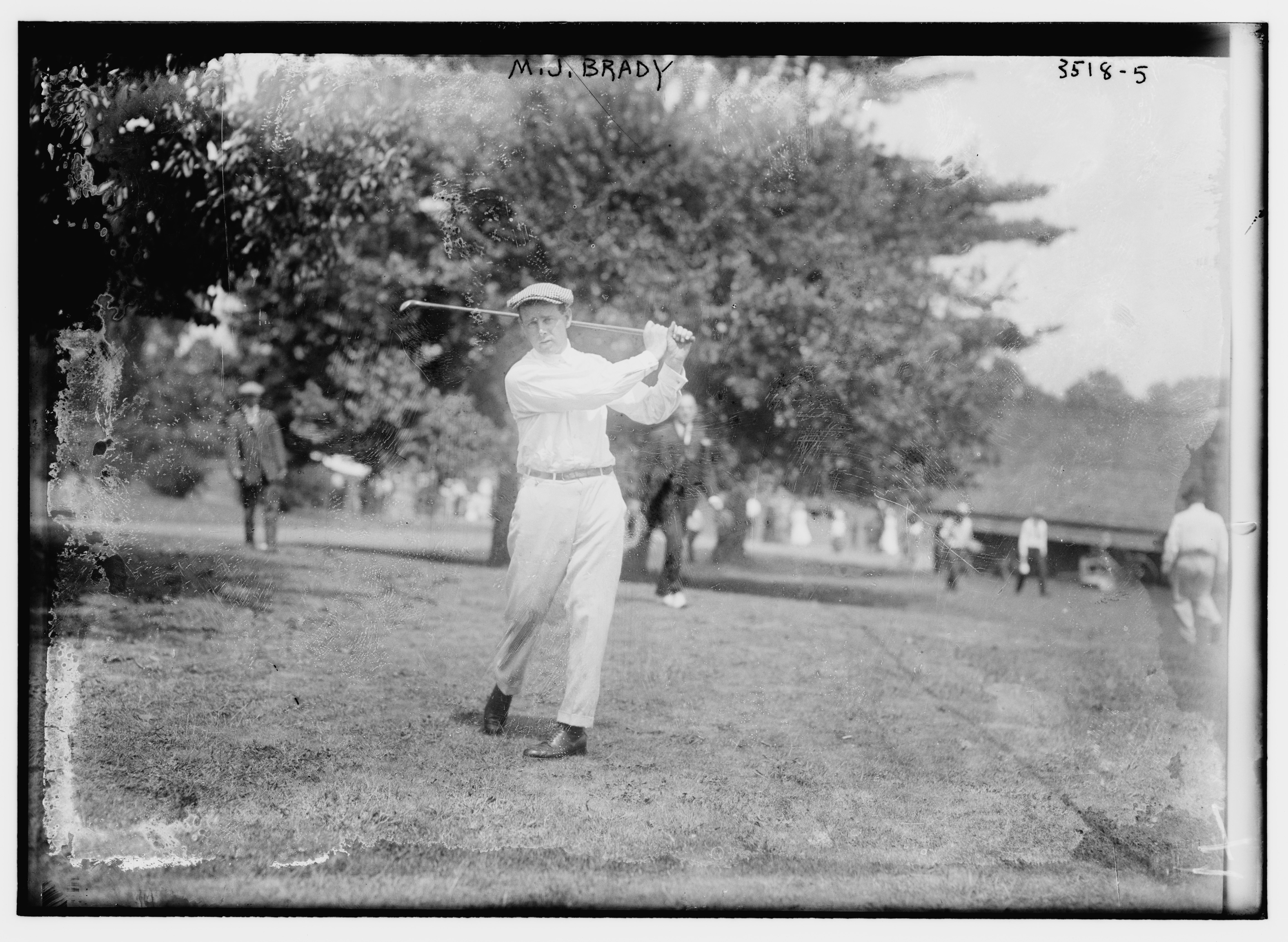 Title: M.J. Brady Abstract/medium: 1 negative : glass ; 5 x 7 in. or smaller.